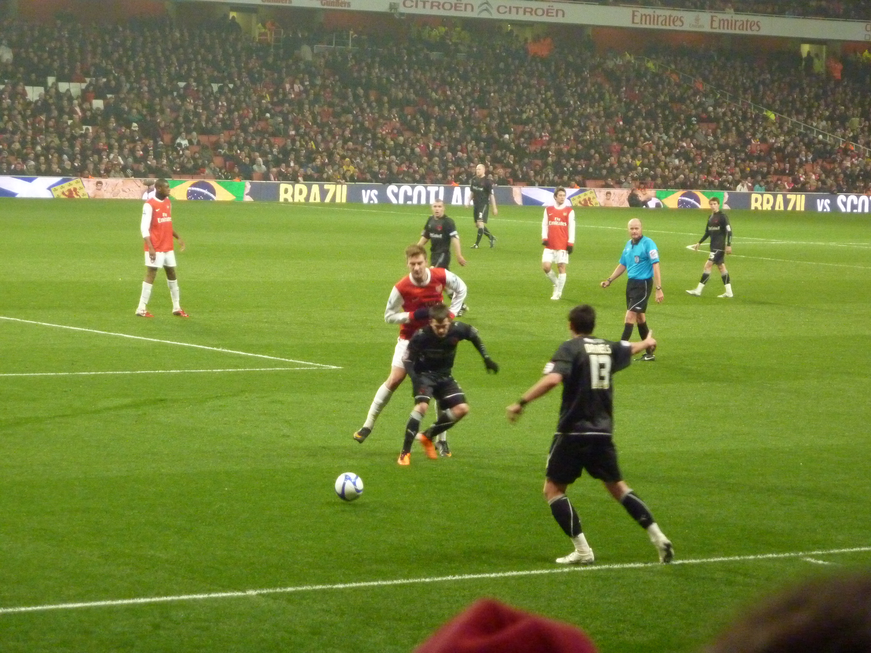 Arsenal - Leyton Orient